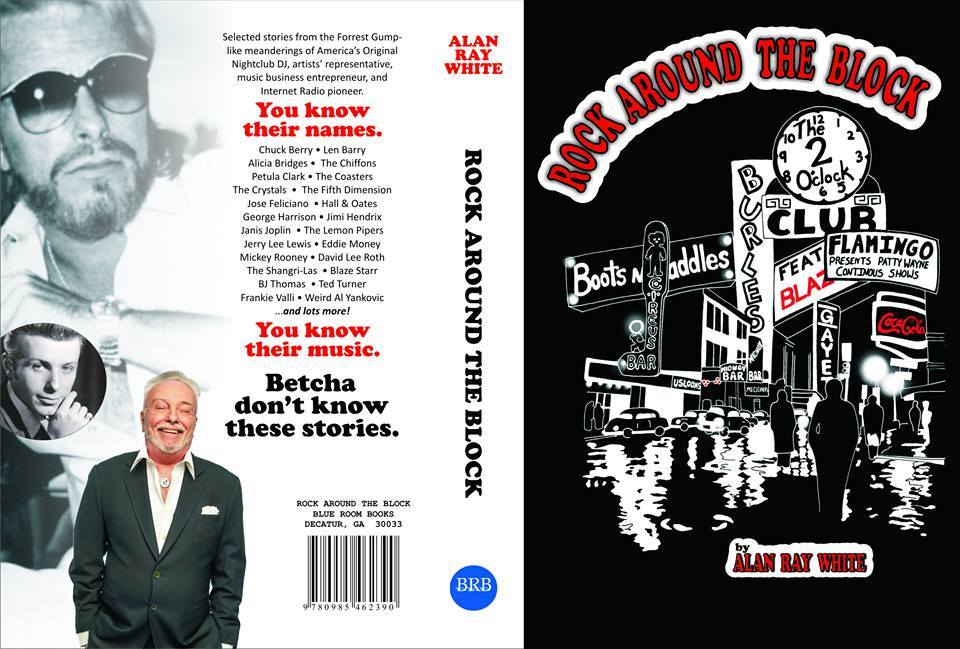 Cover of White's memoir, 'Rock Around the Block'.